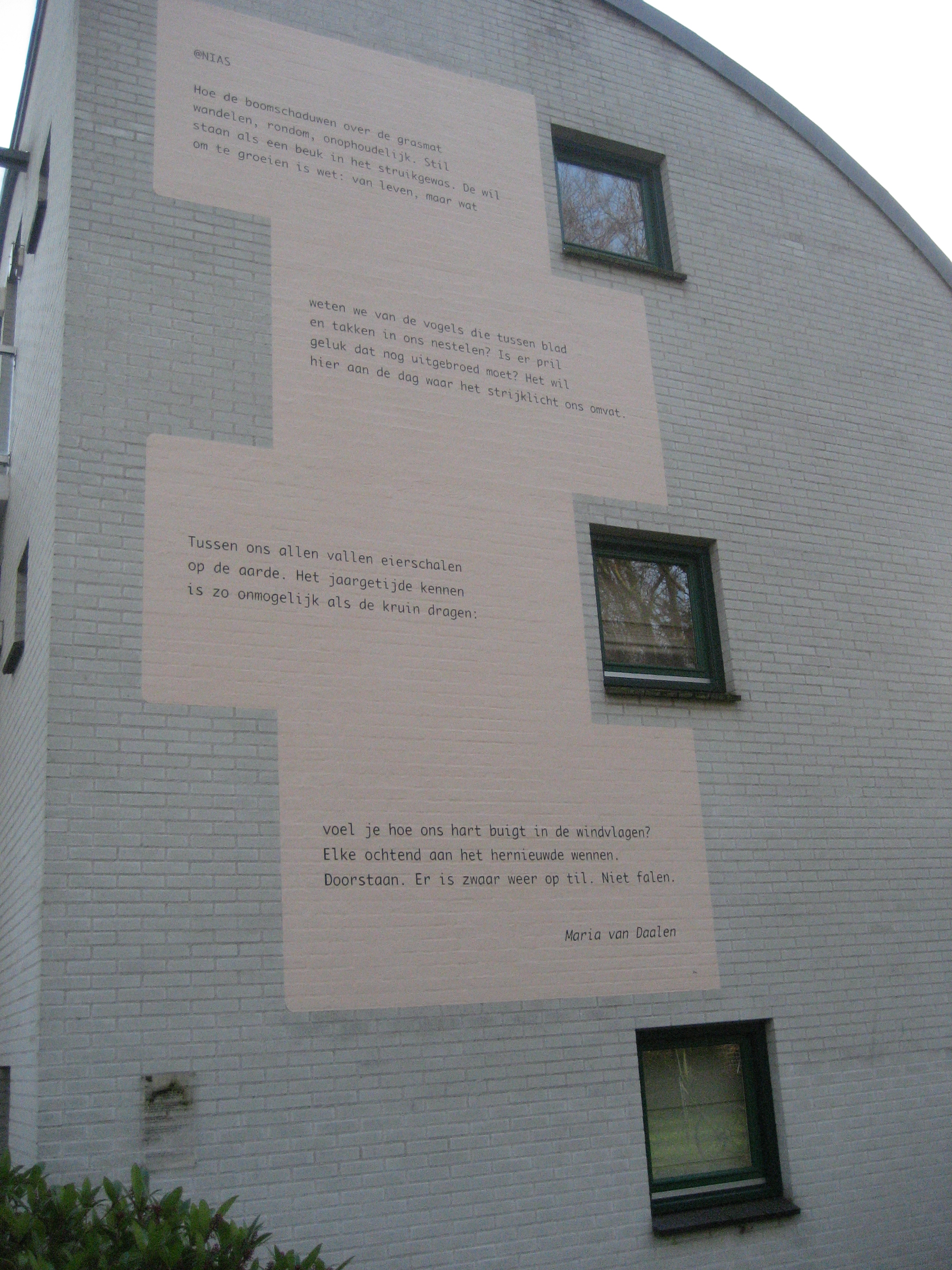 NIAS (Netherlands Institute for Advanced Study in the Humanities and Social Sciences), Meyboomlaan 1, 2242 PR Wassenaar, The Netherlands. Conference& housing building. Wall poem by Maria van Daalen (2011)